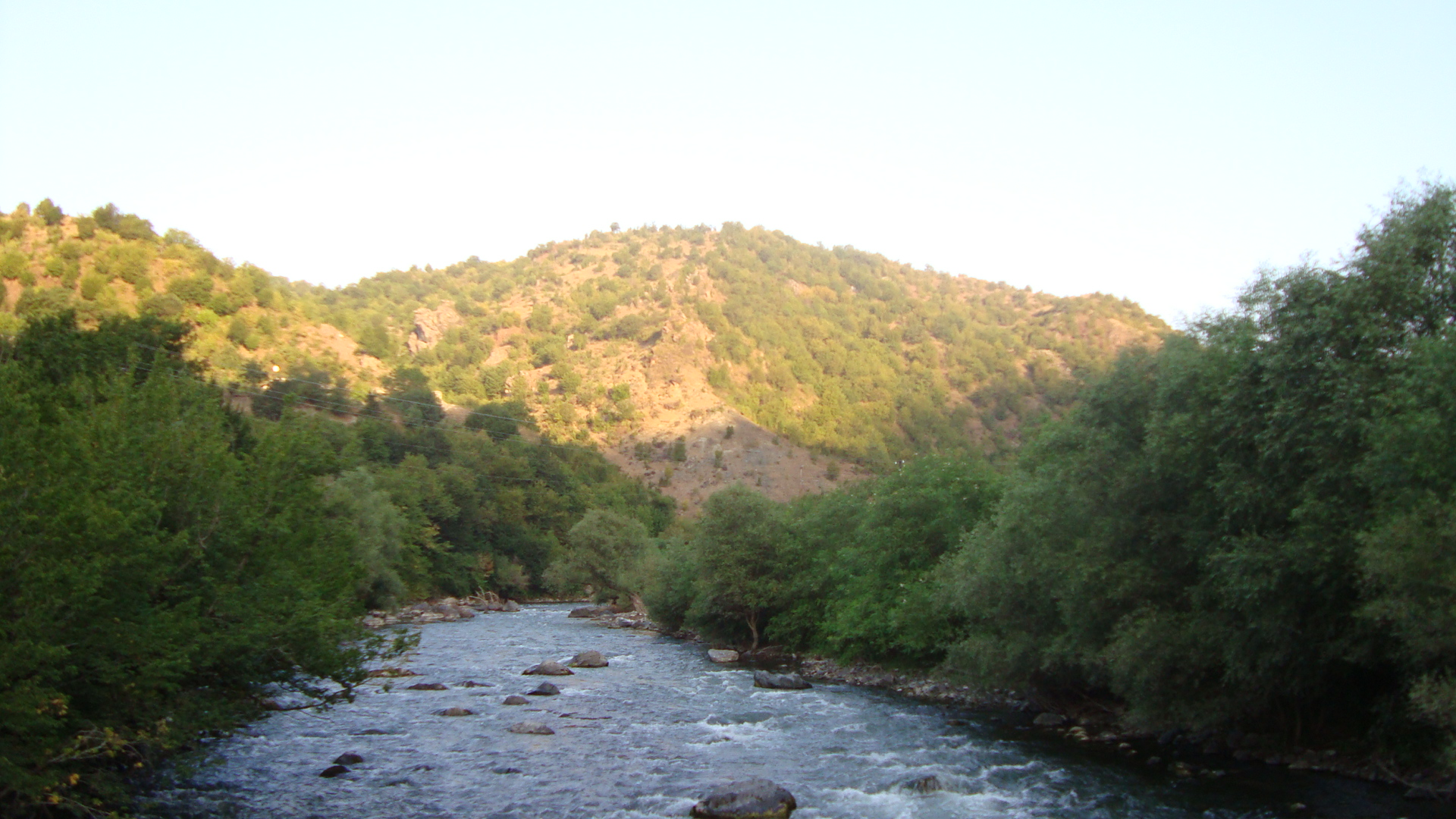 River Trtu in Charektar village. Shahumian district, Republic of Mountainous Karabakh (Azerbaijan).